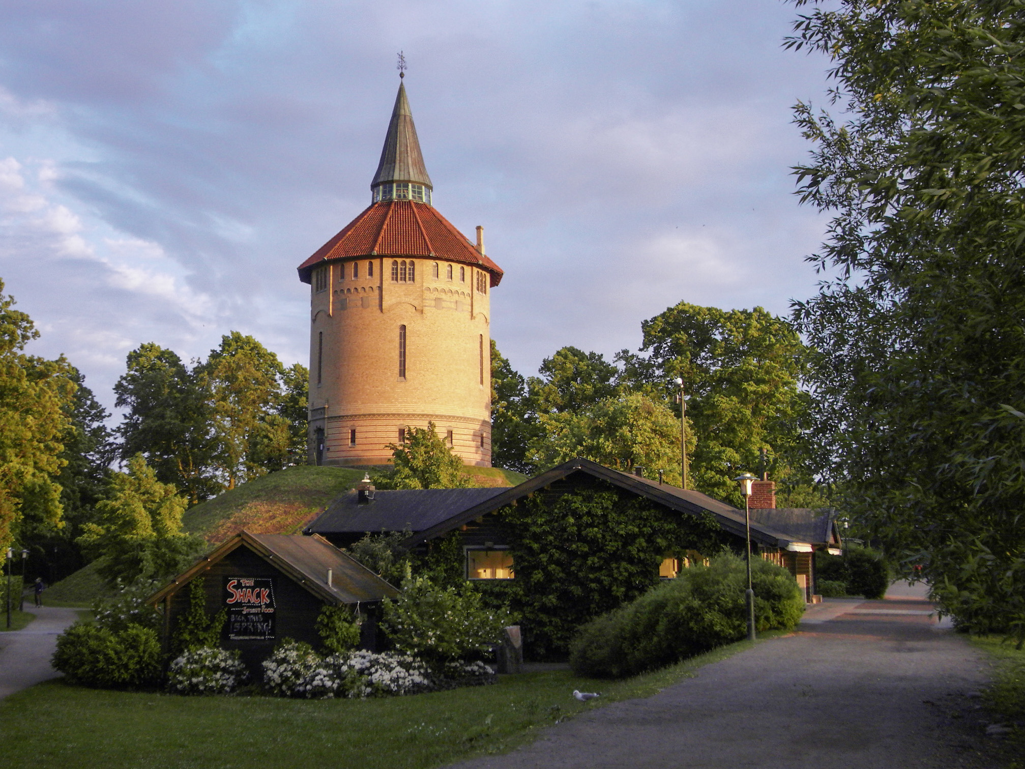 The old watertower (no longer in use) and the restaurant "Bloom in the park" in Pildammsparken in the city of Malmo.